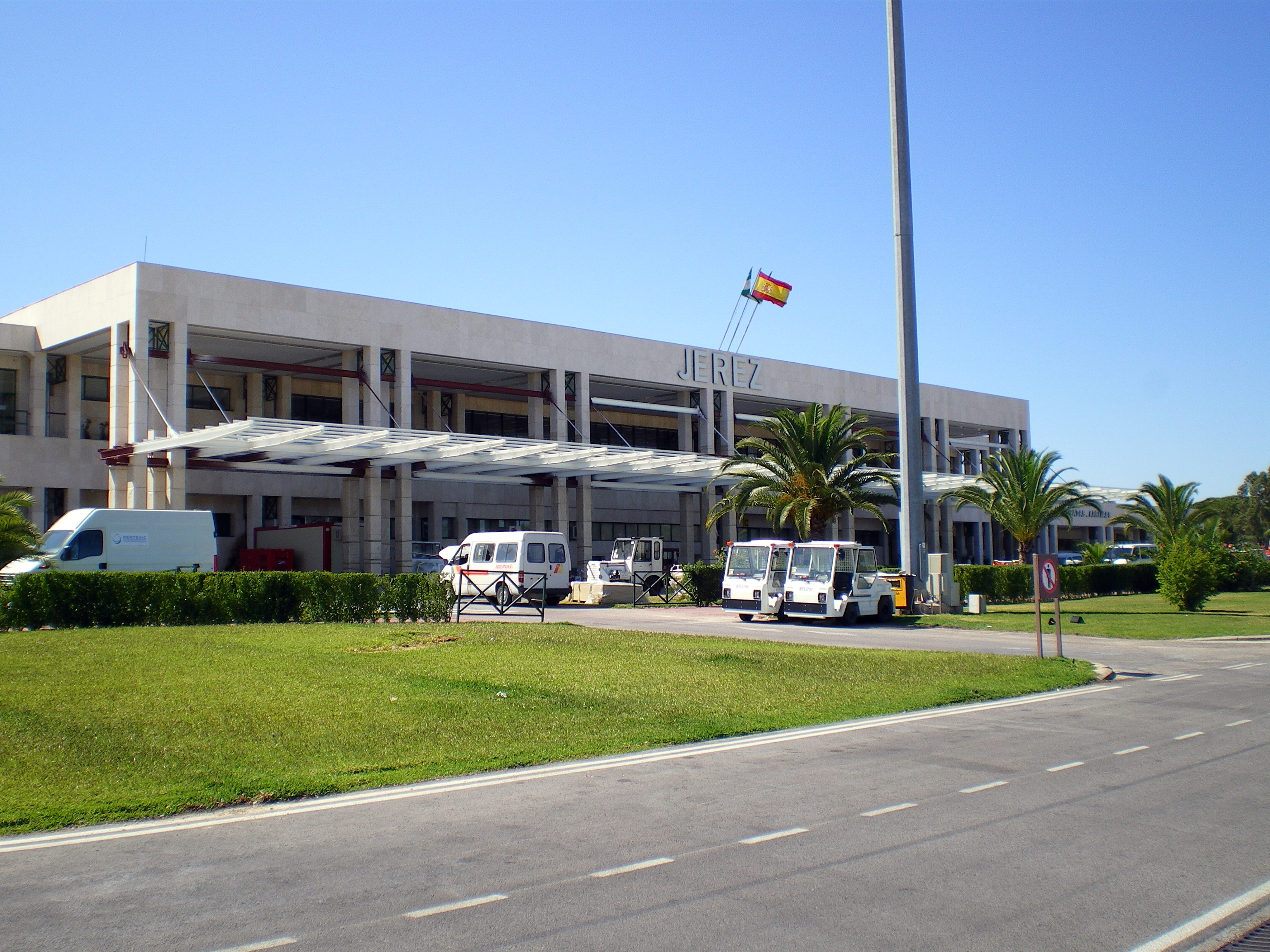 View of the Jerez Airport from the landing platforms.